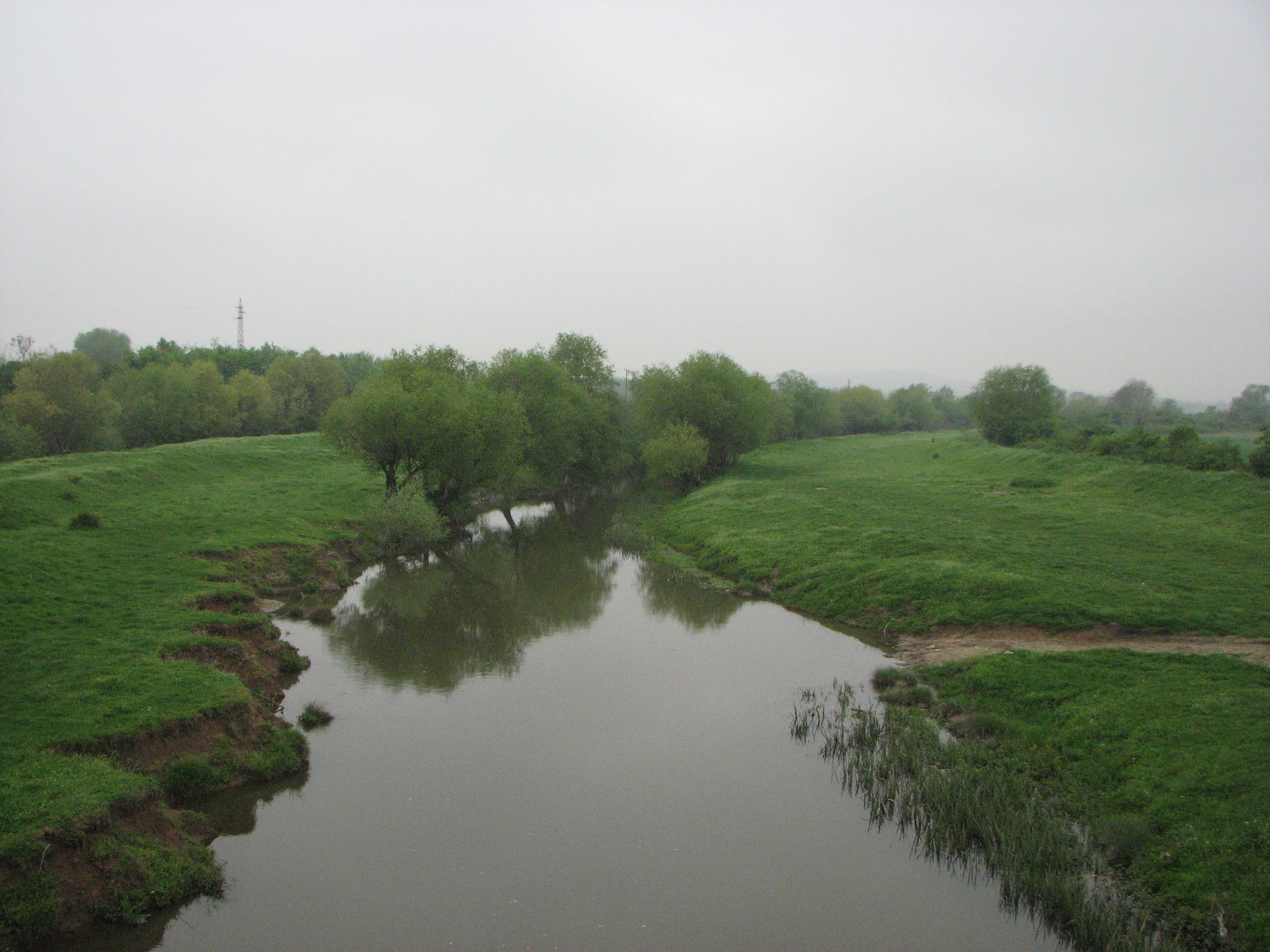 Sazliyka river, Maritsa basin, village Kaloyanovets, Stara Zagora, Republic of Bulgaria